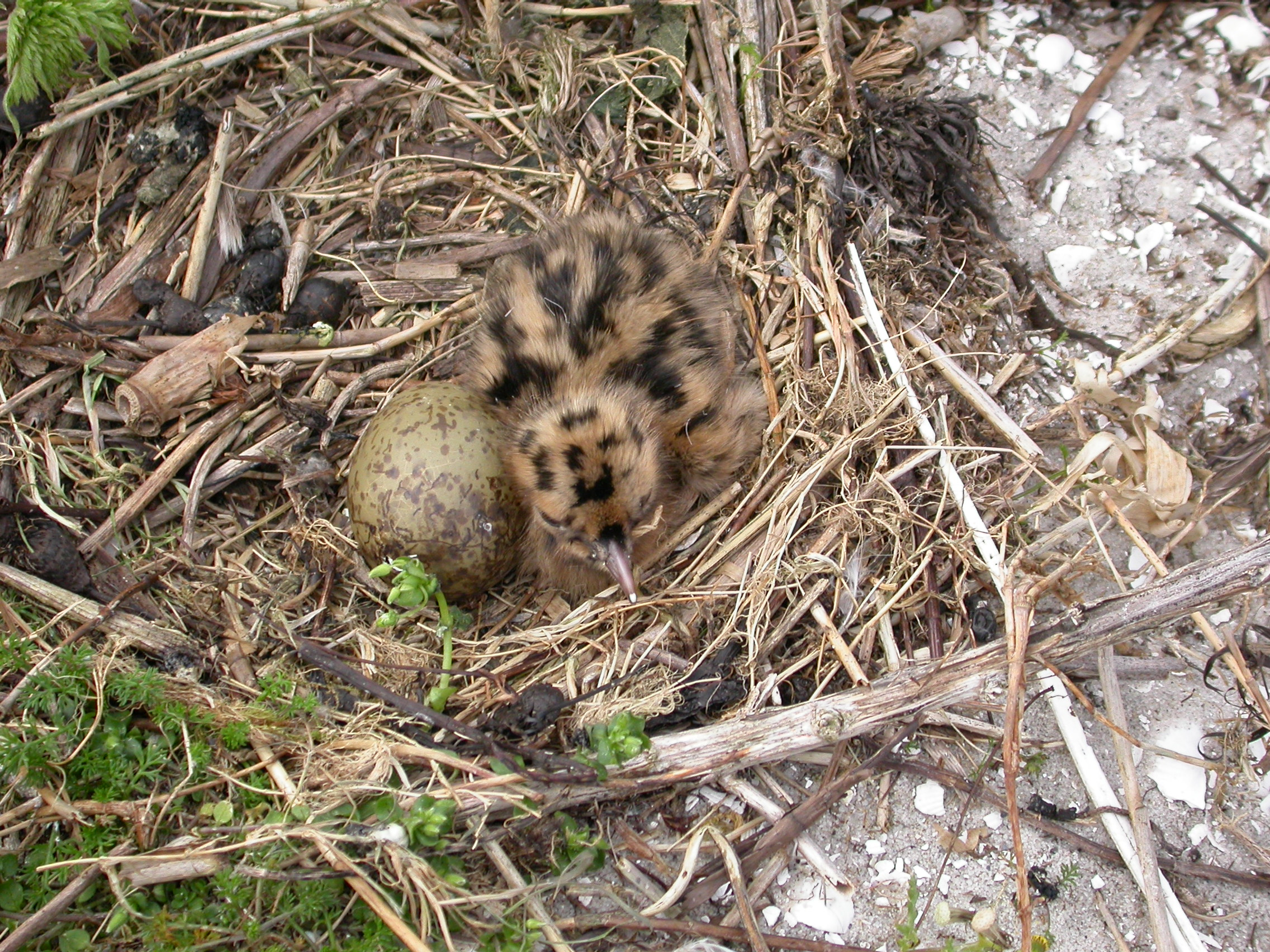 Black-tailed Godwit chick in its nests